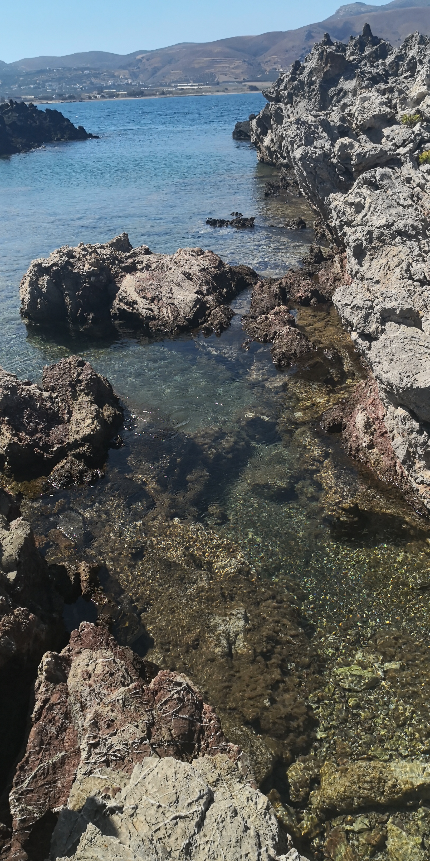 beach in Trachilos